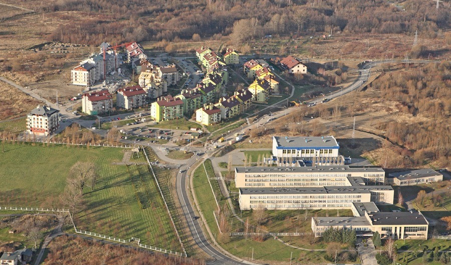 Aerial photography of Sarni Stok - housing estate in Bielsko-Biała, Poland.